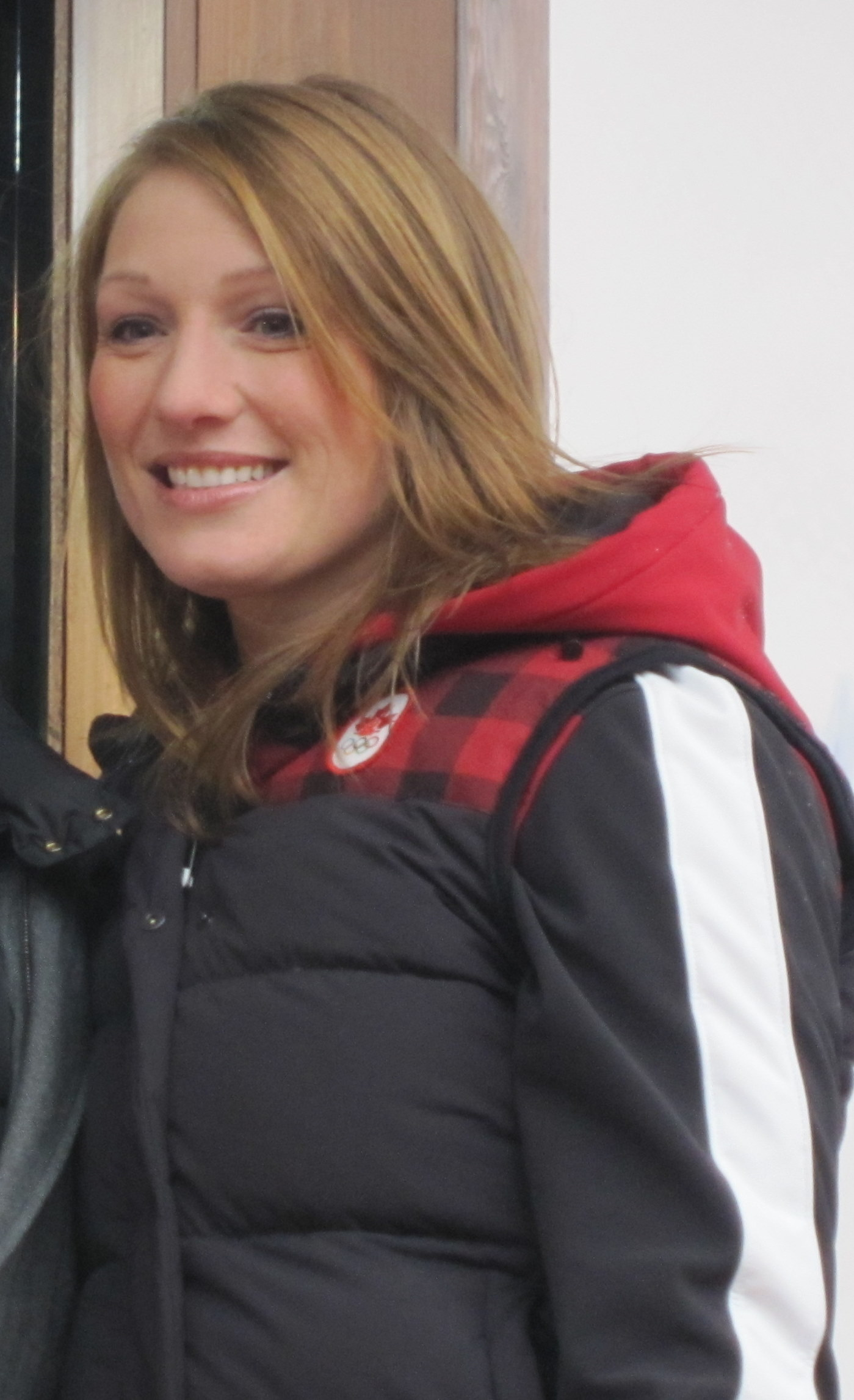 Heather Moyse on Whistler, BC during the Vancouver 2010 Olympics